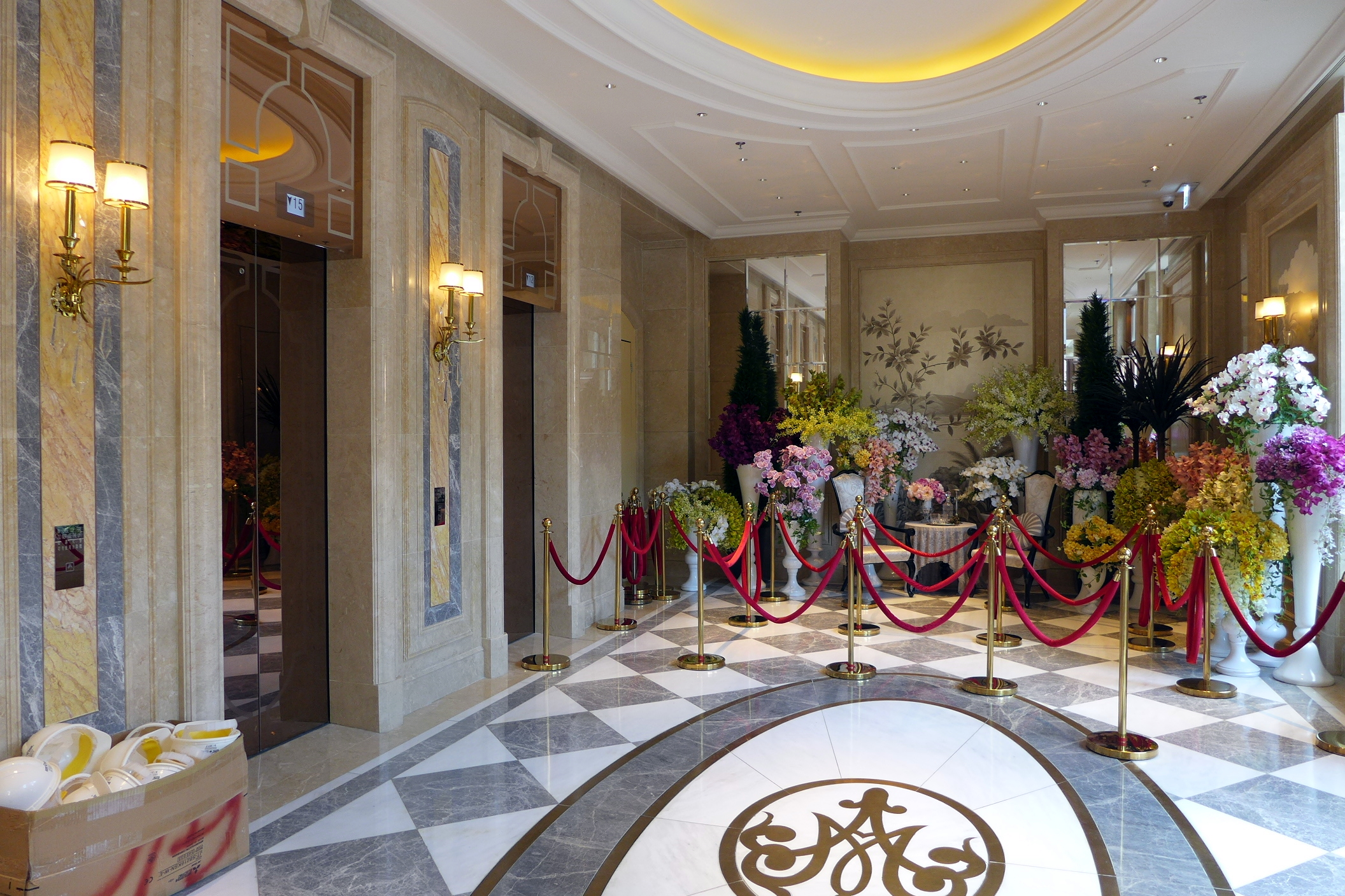 Park Metropolitan Lobby